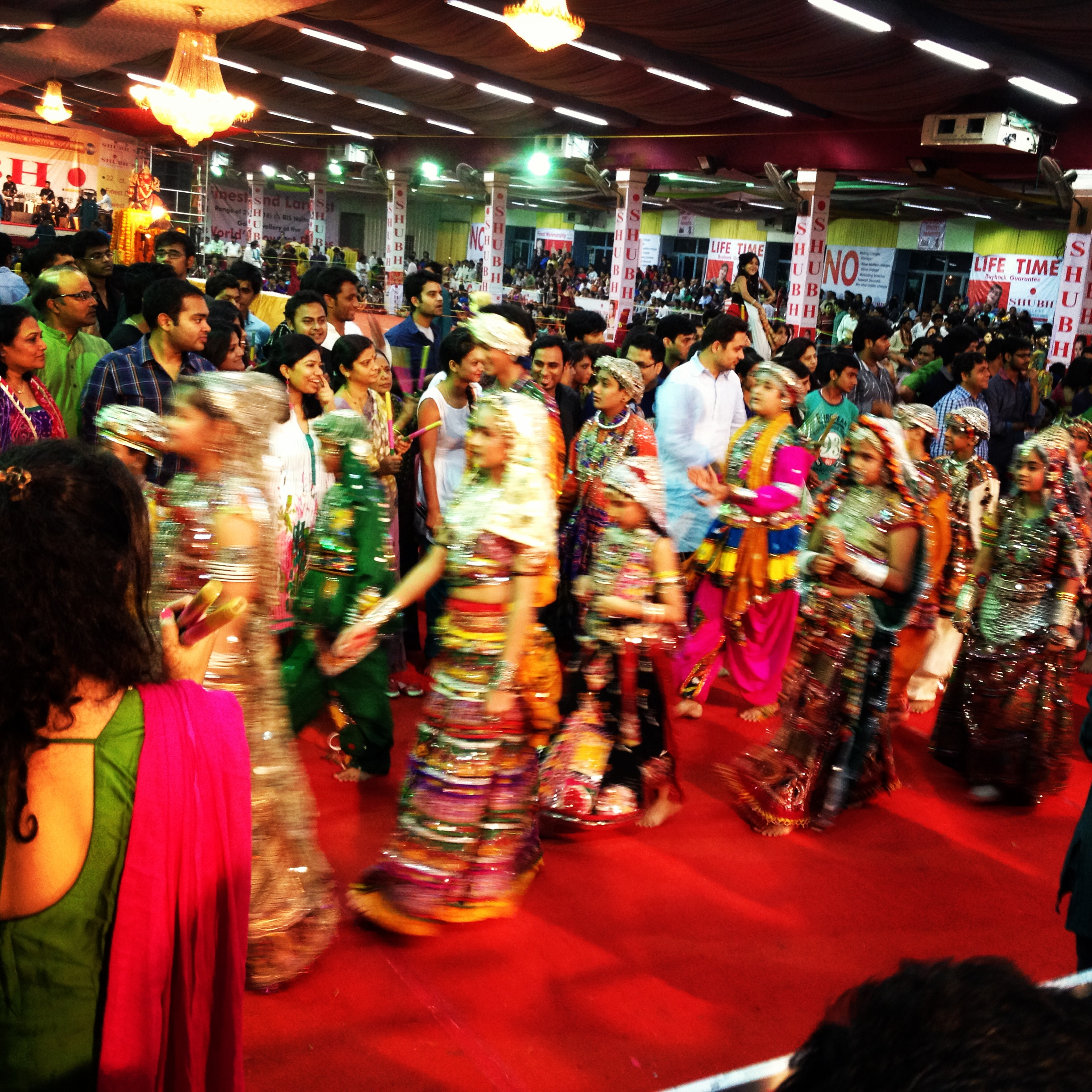 Children performing Dandiya in Palace Grounds, Bangalore. Credit information: This work was created by Subhashish Panigrahi. You are free to use it for any purpose as long as you credit me properly. Contact me: If you are the subject of the picture and would like to schedule another shoot. If you're unsure about how you can use this picture. Reuse: If you use this image outside of Wikimedia projects, I would be happy to hear from you. If you use this image in a printed publication, I would love to get a copy for my archives.